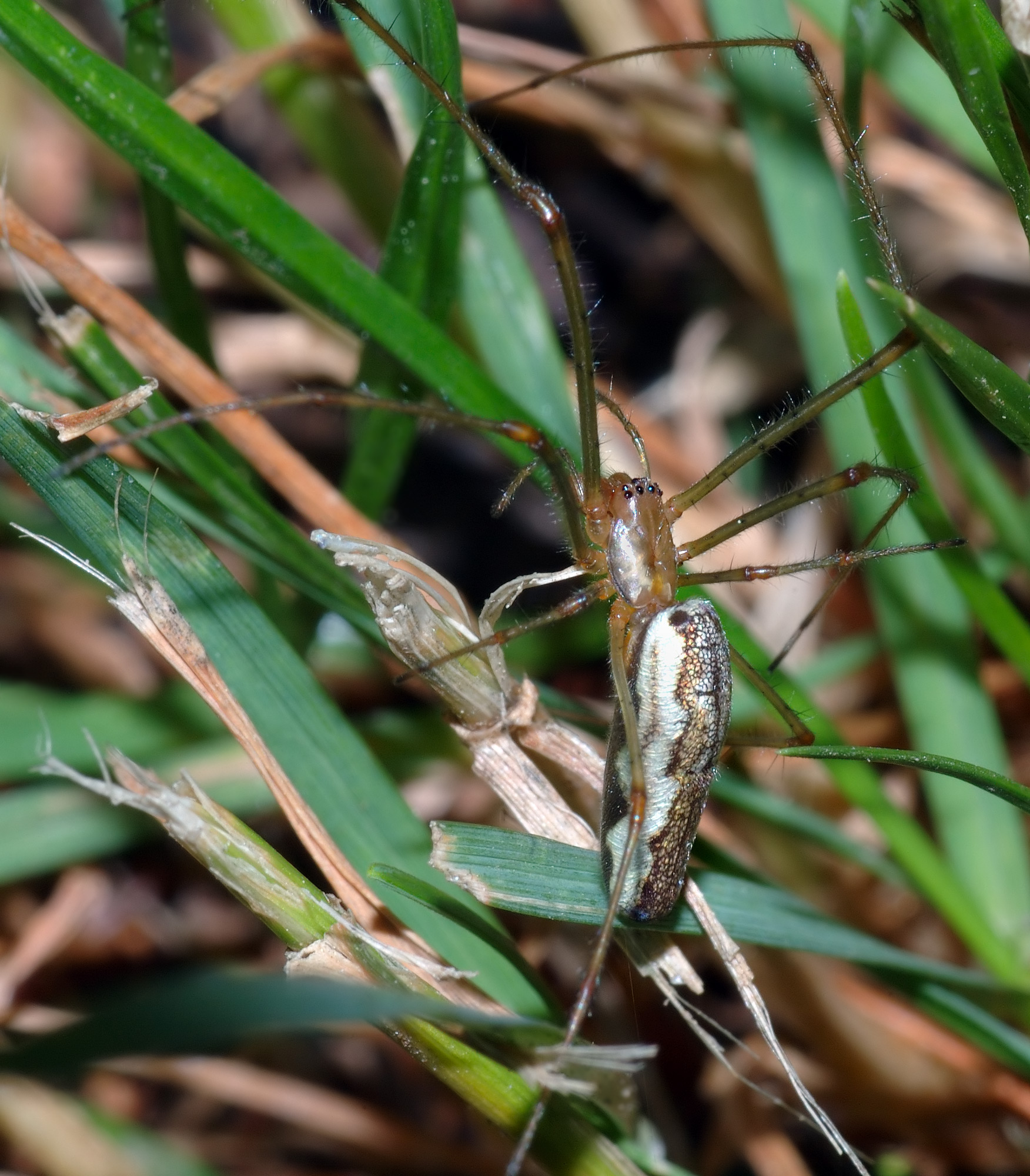 This image shows a Tetragnatha montana spider.